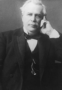 Hon. David Mills (Senator) (Minister of Justice) b. Mar. 18, 1831 - d. May 8, 1903